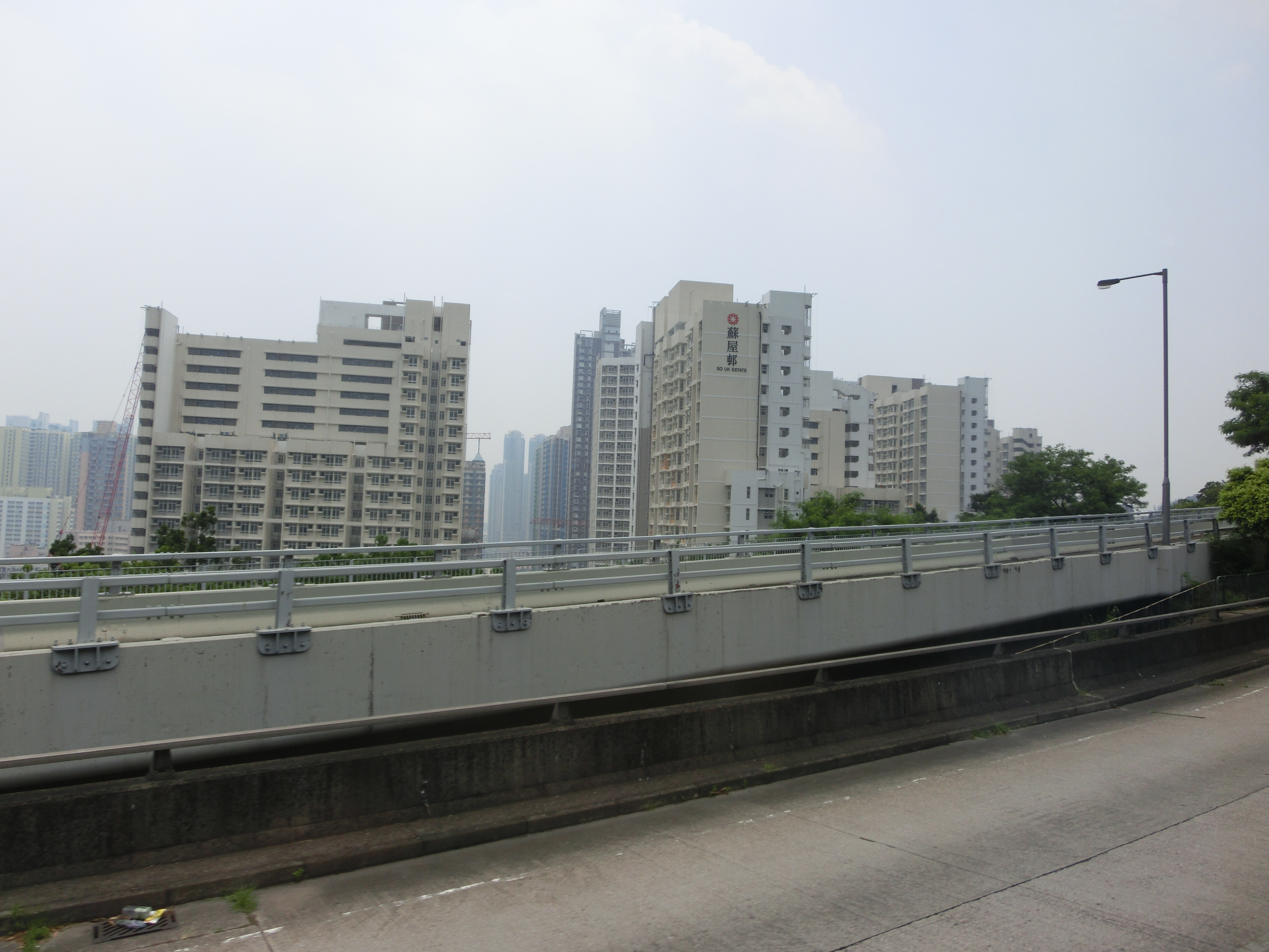 Rebuilt So Uk Estate Phase 1, taken on Friday, 8 July, 2016, 13:16:38.